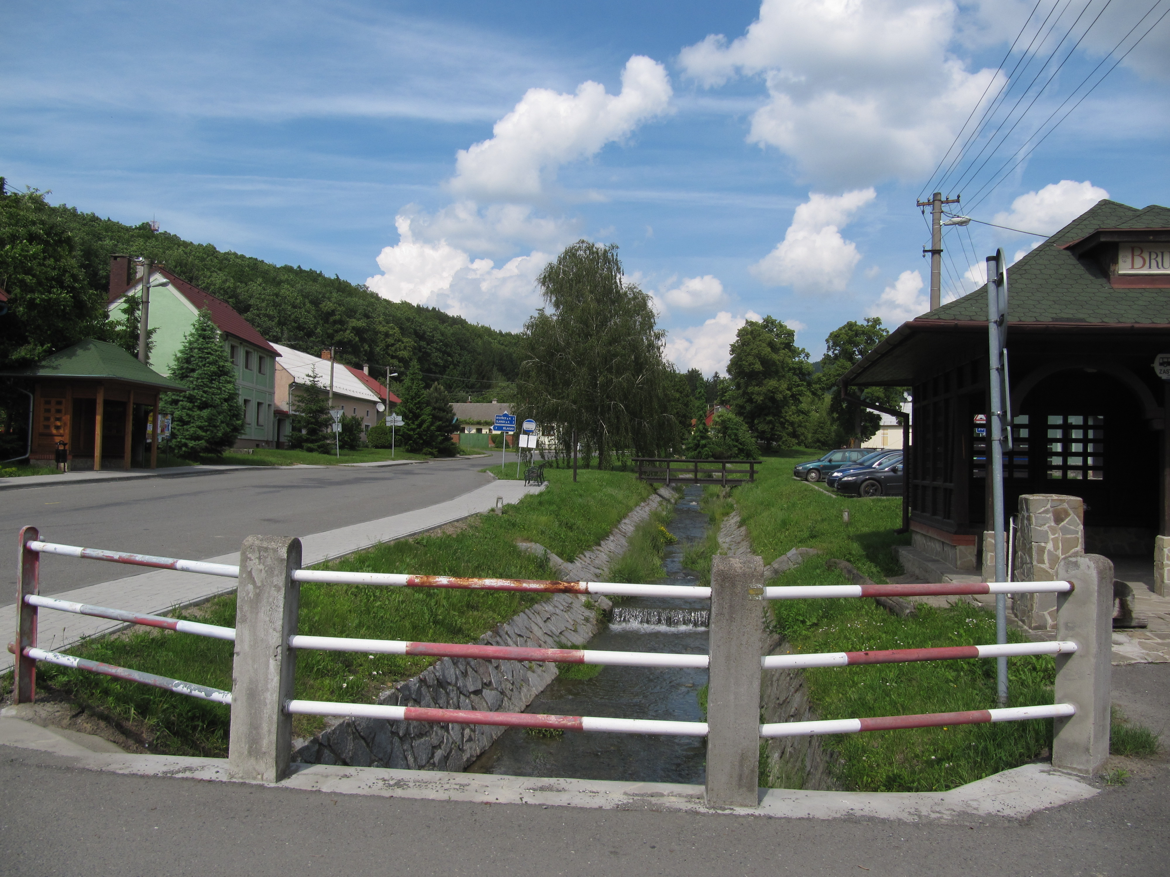 Brusné, Kroměříž District, Czech Republic. Village green and the Brusenka brook.